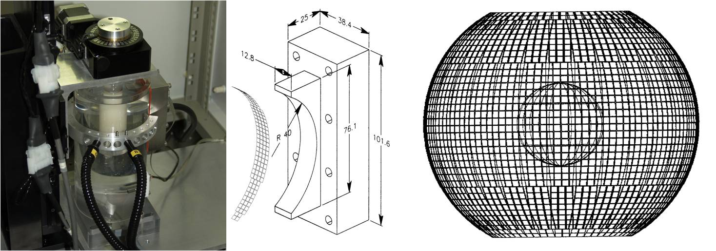 Picture of first small animal scanner